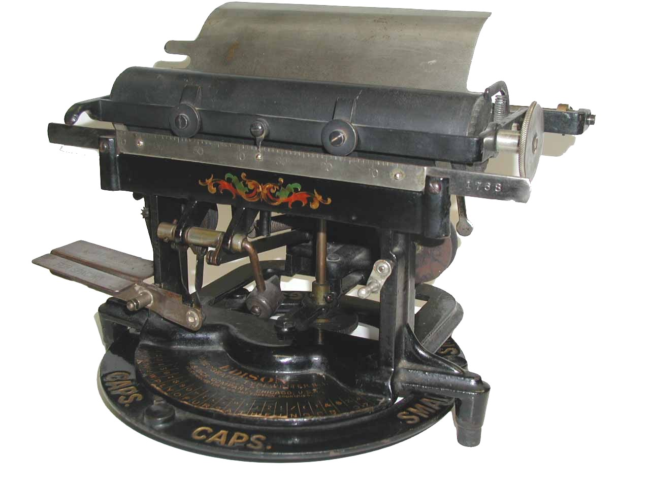 Edison Mimeograph Typewriter Model 1